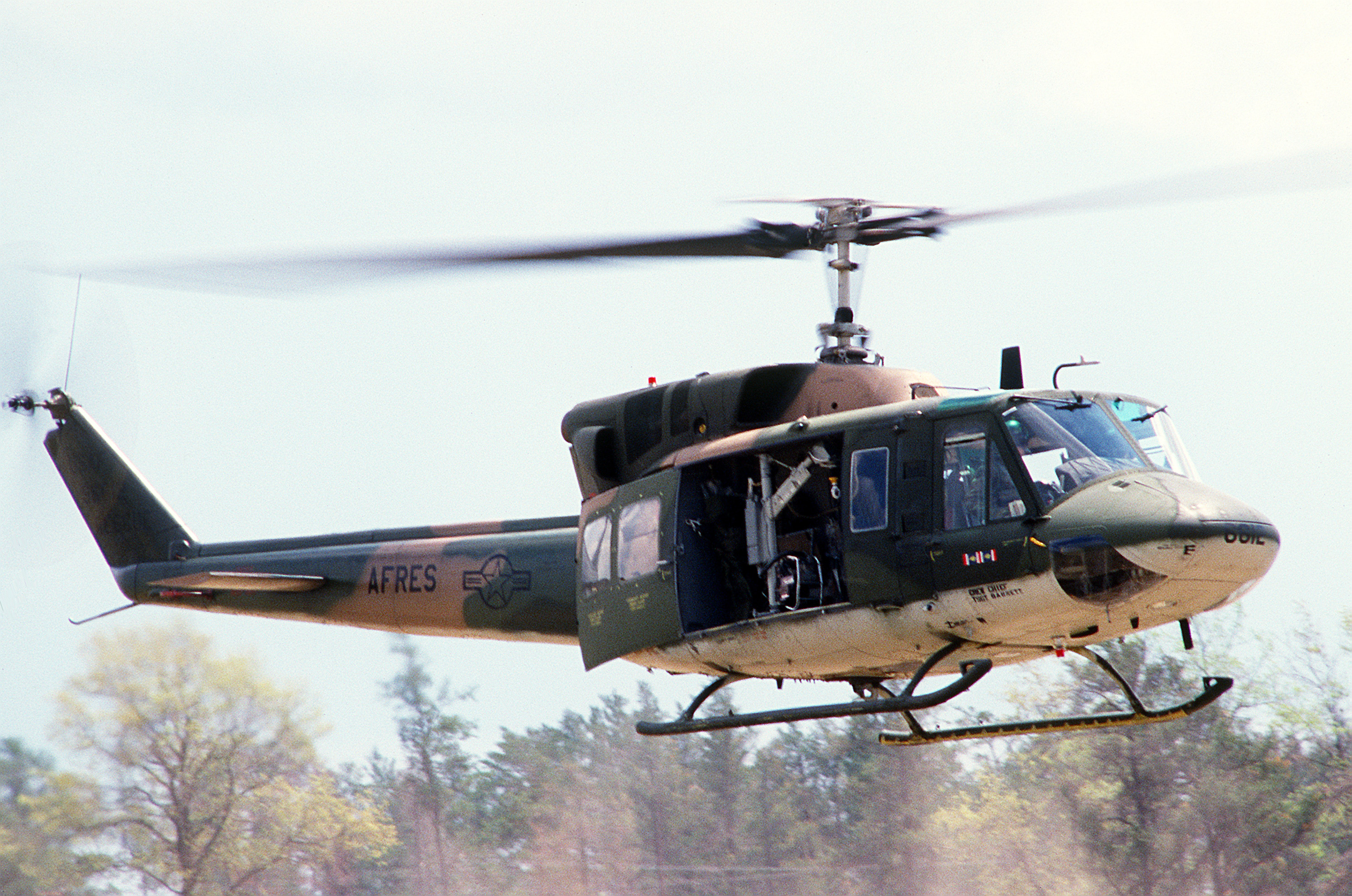 A U.S. Air Force Reserve Bell HH-1N Huey (s/n 69-6612) taking off on maneuvers during a reserve rescue exercise at Phelps Collins Air National Guard Base, Alpena, Michigan (USA), 12 May 1982. This helicopter crash-landed on 15 April 1996 and finally crashed on 8 August 2002 during a training mission at Kirtland Air Force Base, New Mexico (USA).